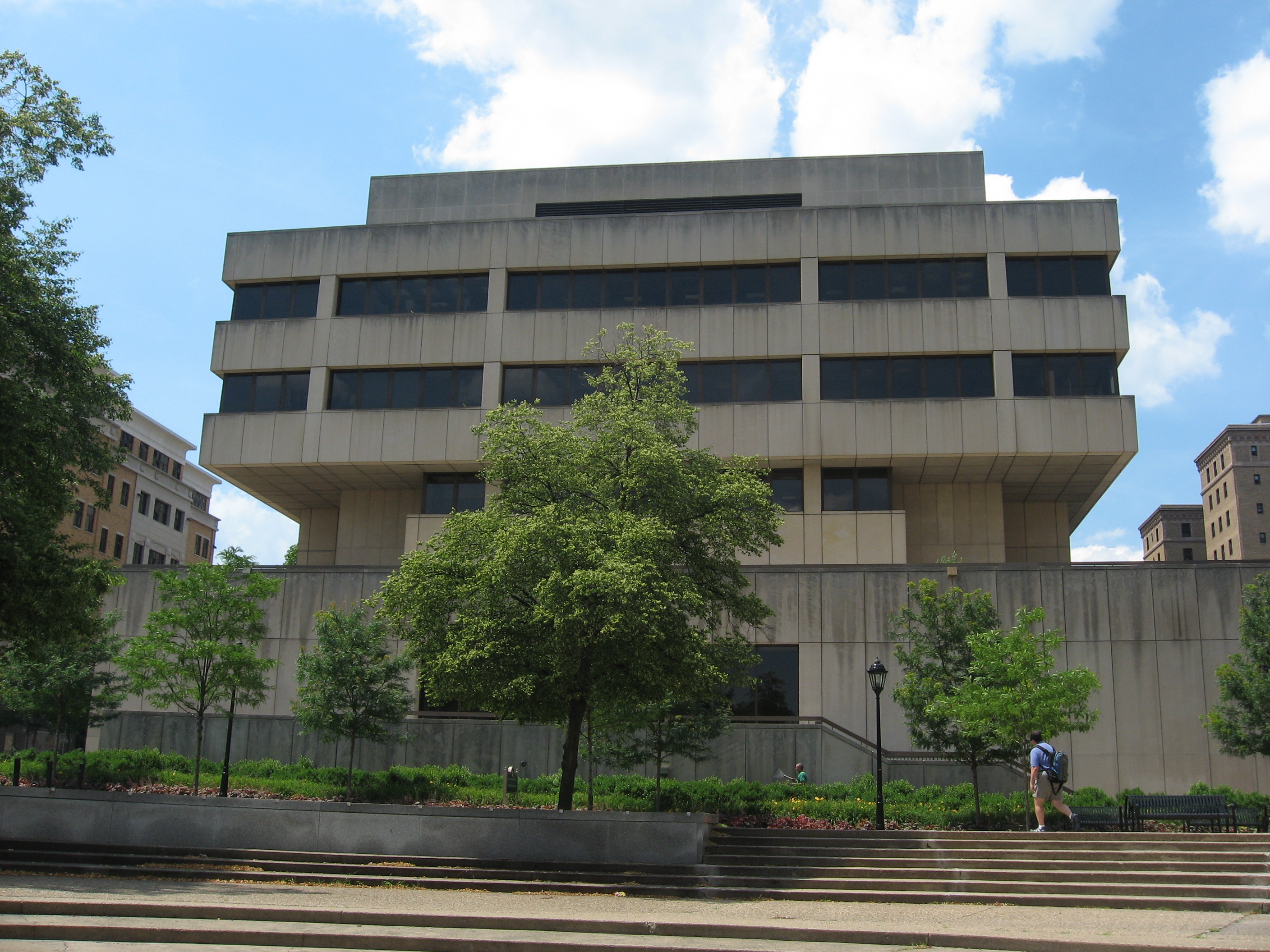 Rear view of the Barco Law Building of the University of Pittsburgh School of Law in the summer. 40°26′30.9″N 79°57′20.5″W / 40.441917°N 79.955694°W